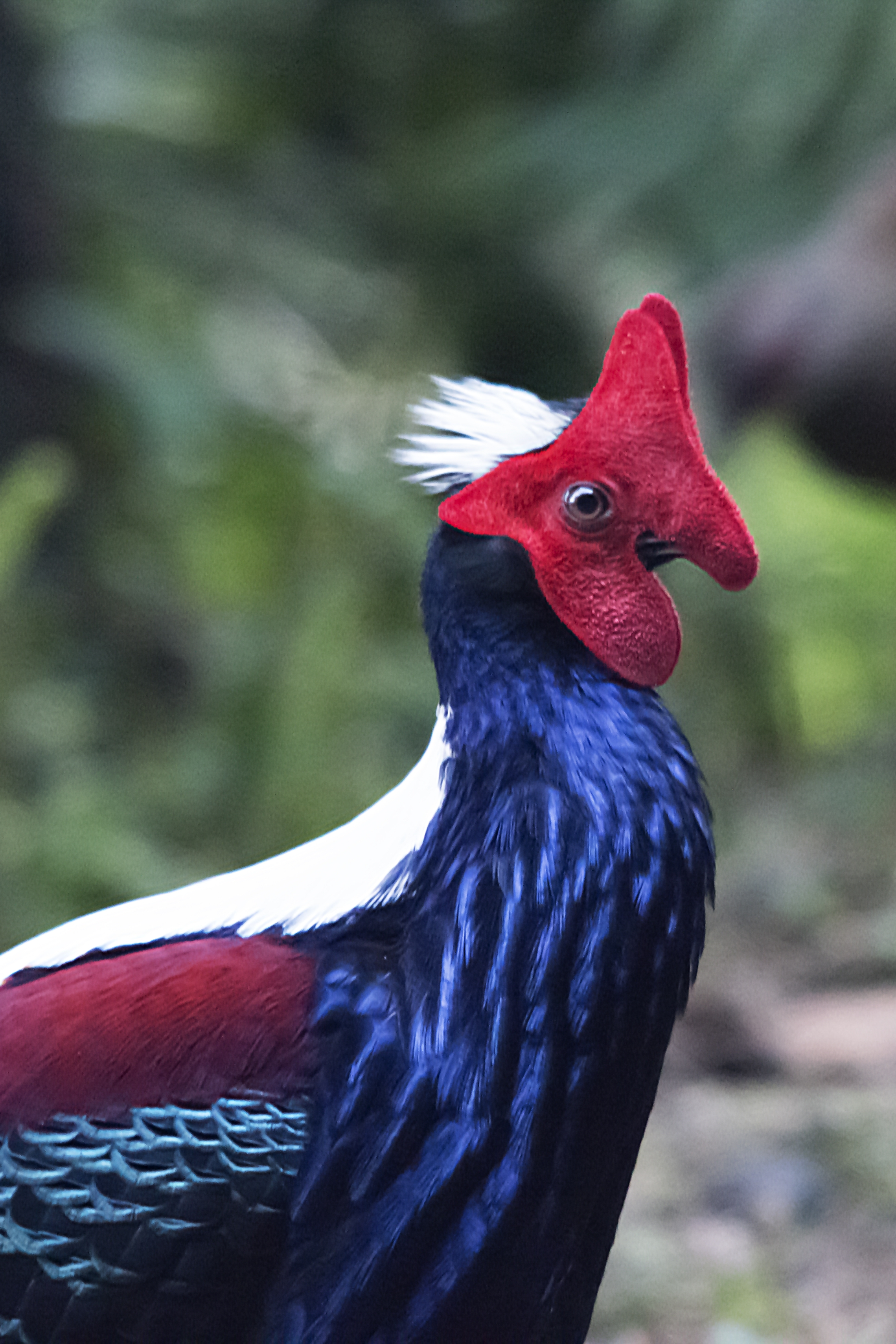 A male Swinhoe's Pheasant with wattles engorged. Cropped with some sharpening adjustment. Photographed at Dasyueshan National Forest Recreation Area in Taichung County, Taiwan